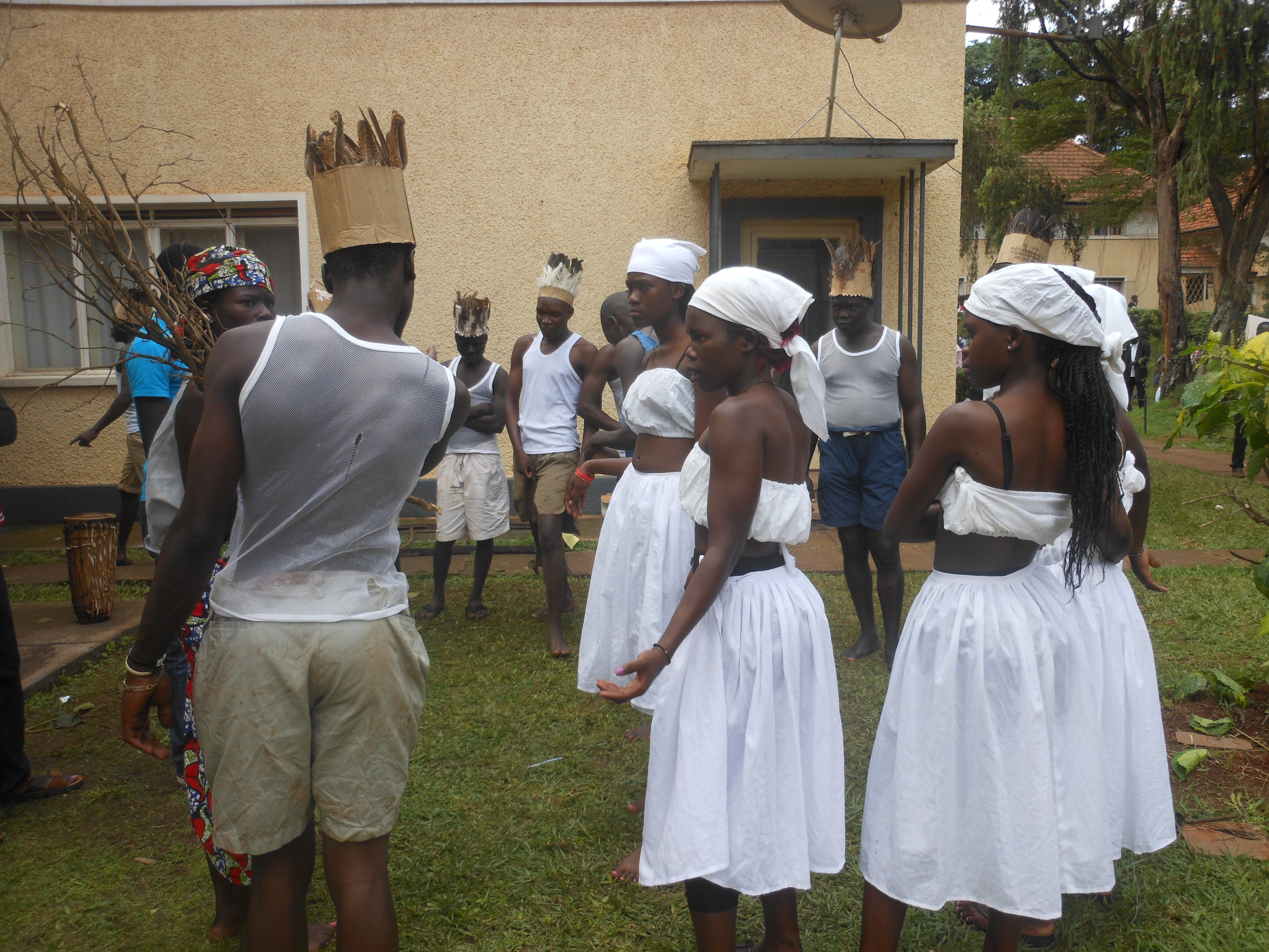 The Rugbara from northern Uganda performing a cultural dance This is an image of Cultural Fashion or Adornment from Uganda